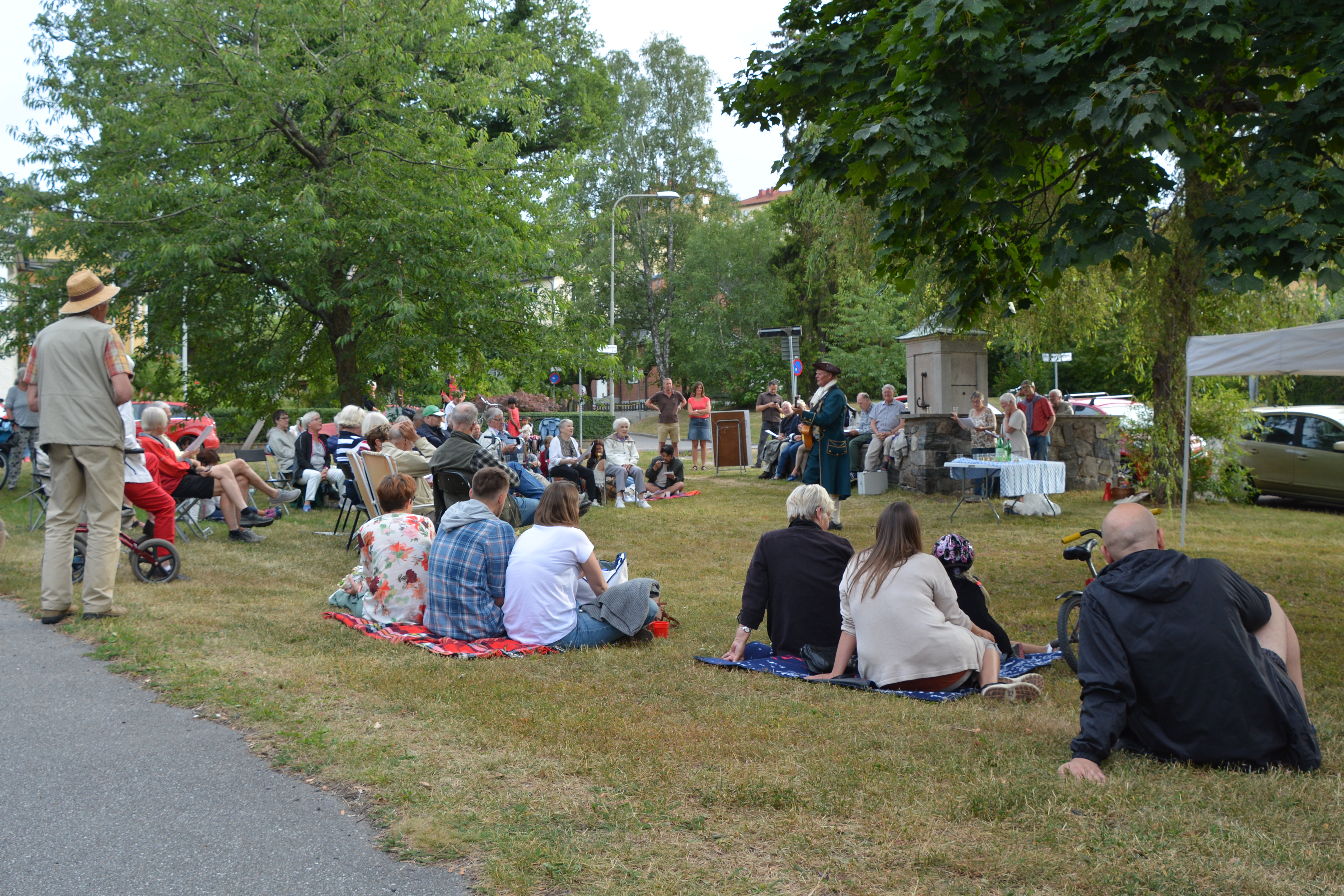 Bellmansfirande vid Bellmanskällan med Bernt Törnblom den 26 juli 2017